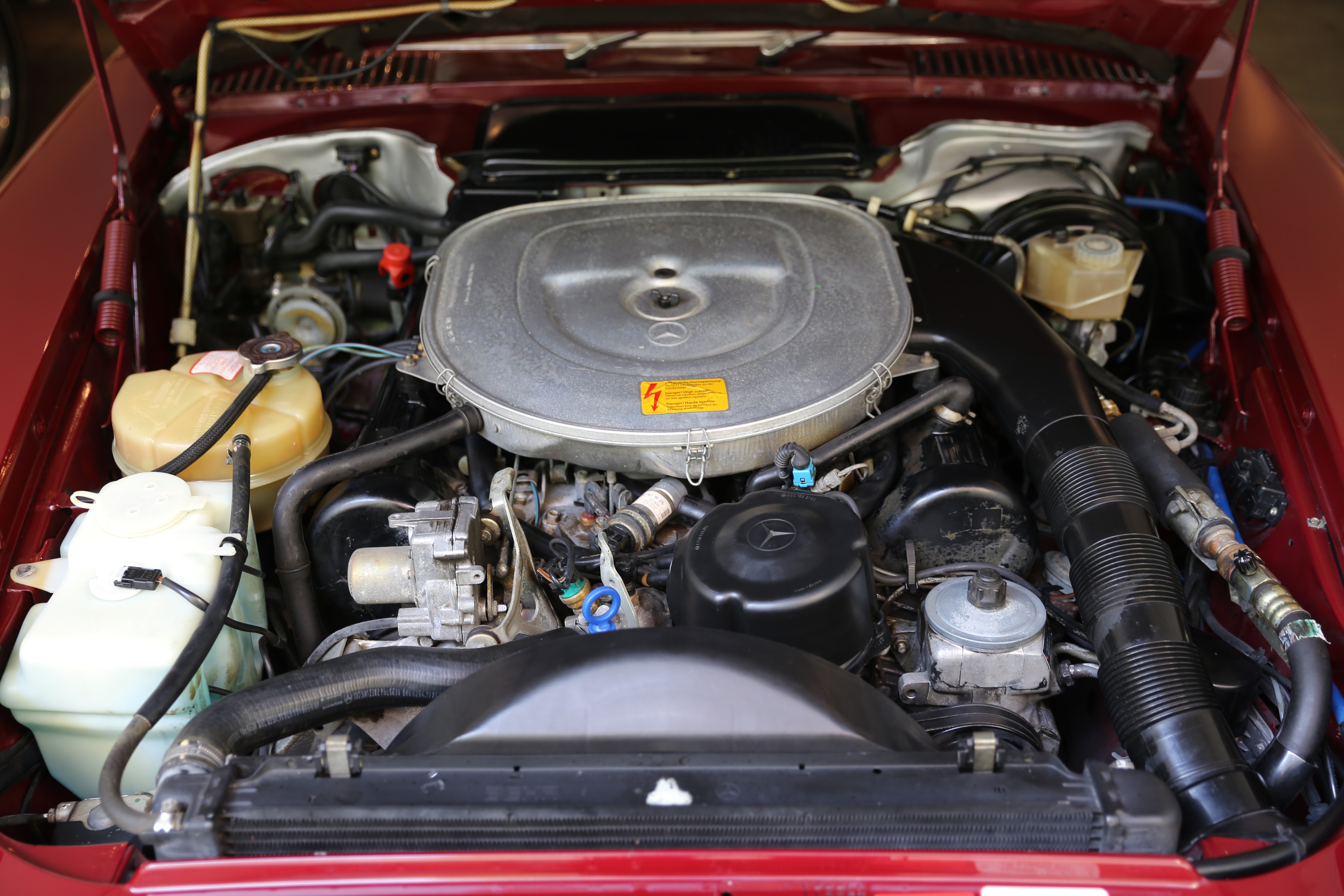 The 5547cc "M117" V8 engine of a 1989 Mercedes-Benz 560SL (should have been a 550SL, really). US market version with a mere 29K miles